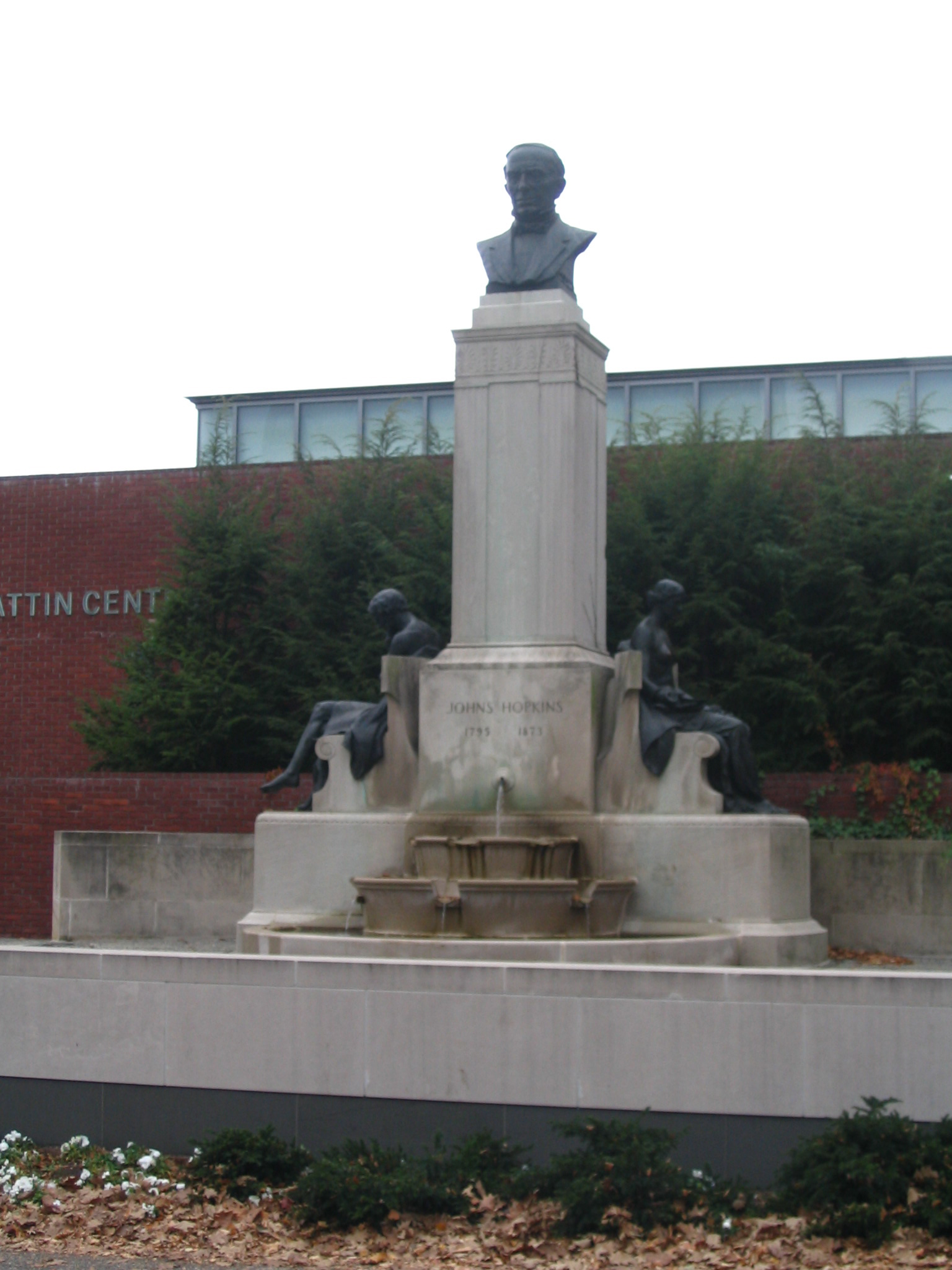 Statue of Johns Hopkins on Charles Street near Johns Hopkins Homewood Campus. Photo taken by Jfruh.